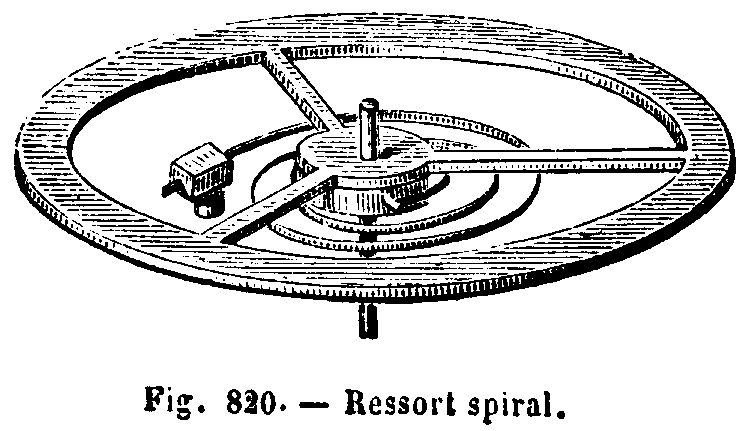 Balance wheel of watch with spiral balance spring